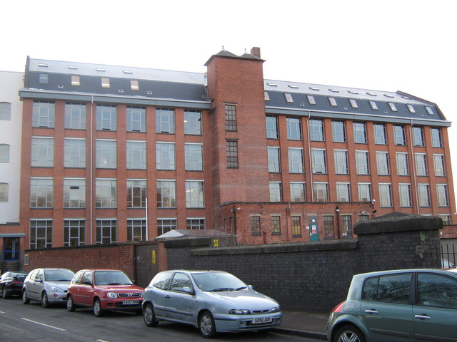 University of Derby's Britannia Mill on Mackworth Road, Derby The University of Derby's Britannia Mill Campus from Mackworth Road, Derby.